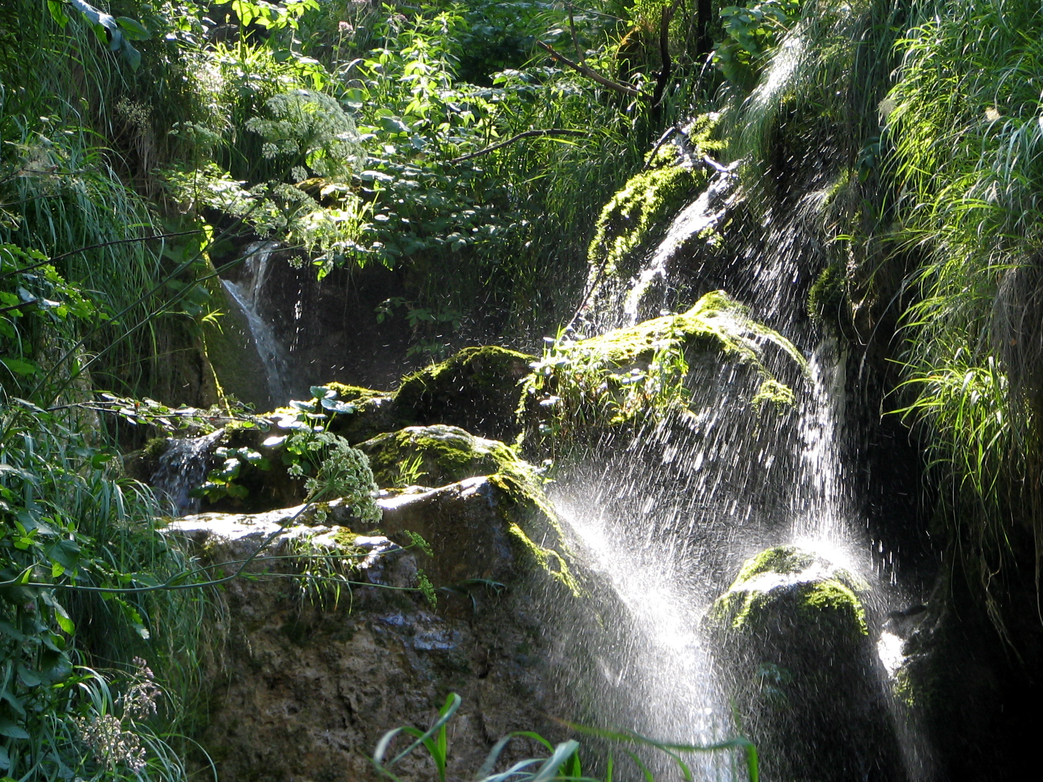 Morino